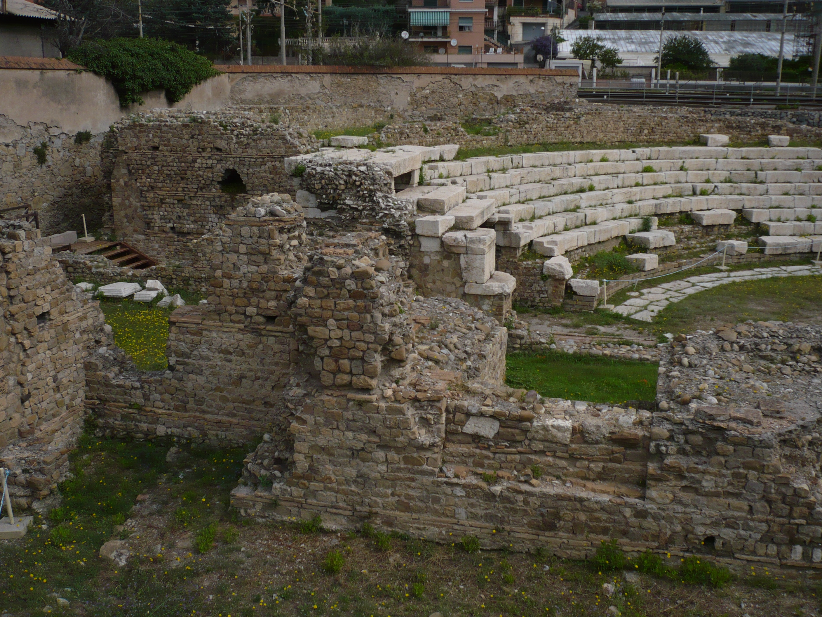 Entrata ovest del teatro romano di Ventimiglia in Italia. Western entry of the Roman Theater in Ventimiglia, Italy.